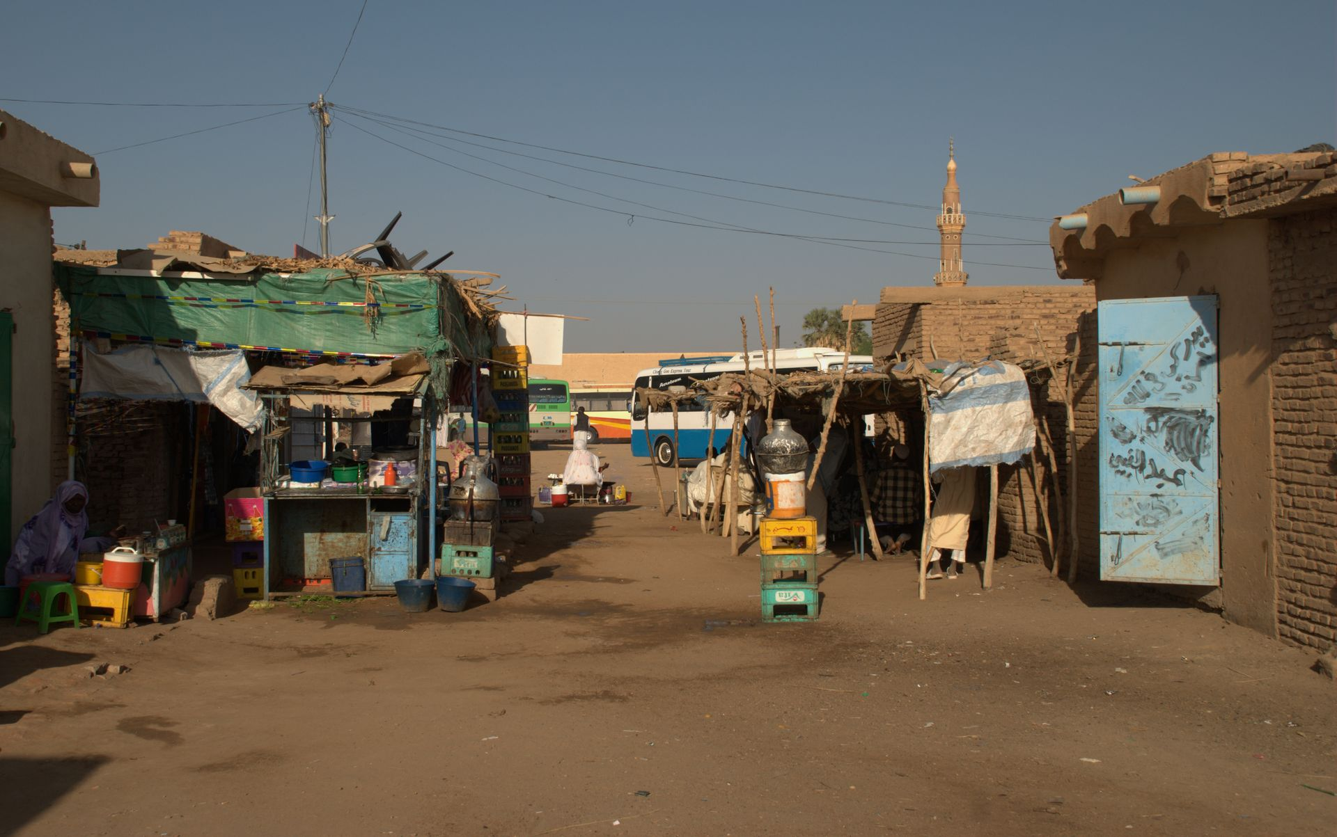 Shendi, Sudan, busstation